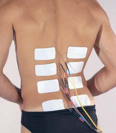 Electrical Muscle stimulation NMES for back. How to place electrodes